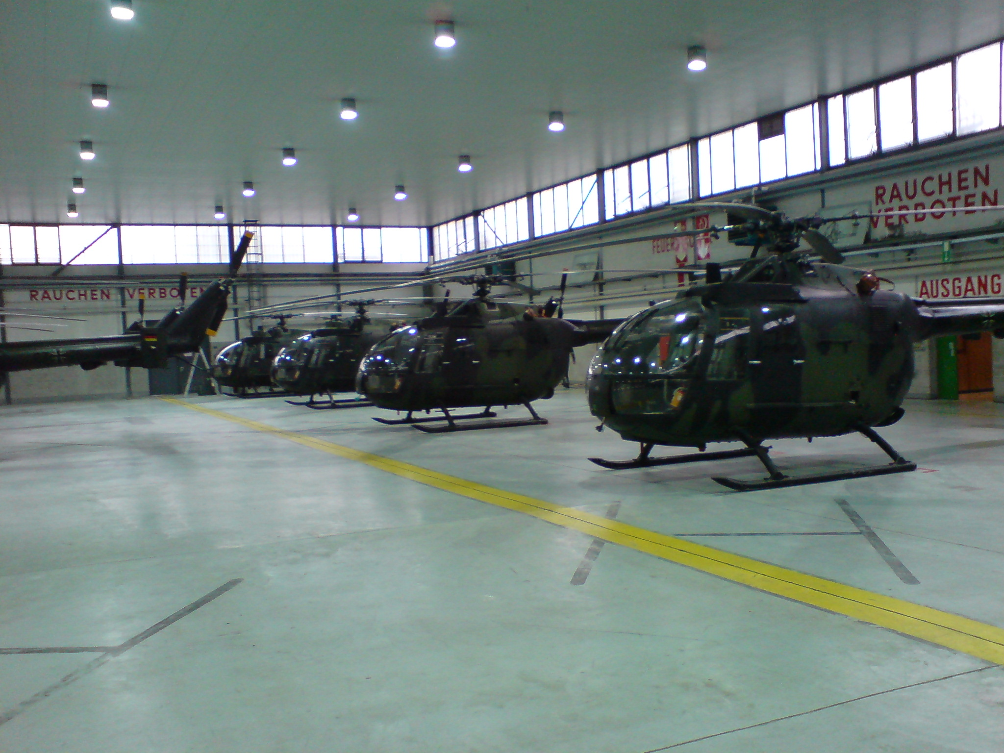 German Army Bo 105 VBHs and PAHs in hangar at Fritzlar Air Base, Oct. 2008